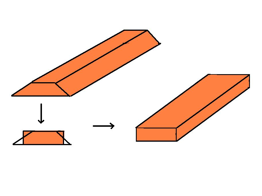 Volume of trapezoid dyke梯形堤体积